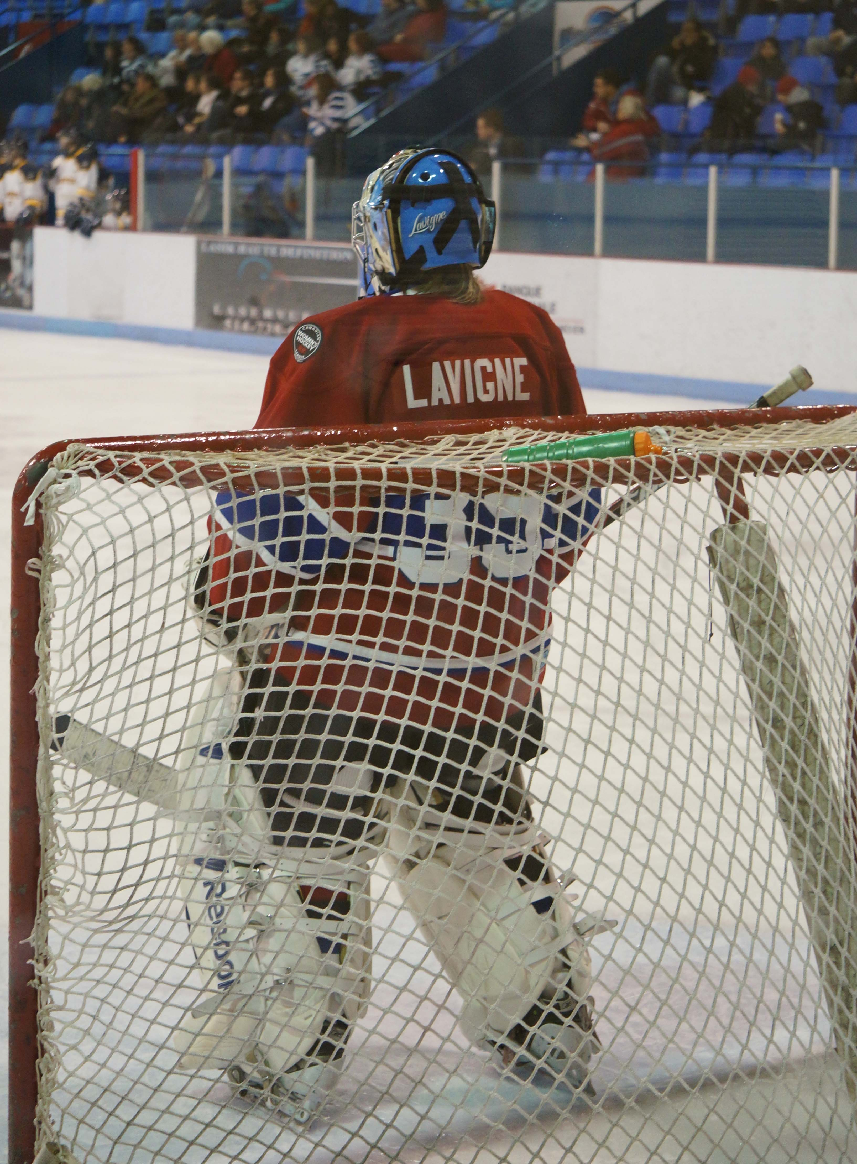 Jenny Lavigne, Montreal Stars